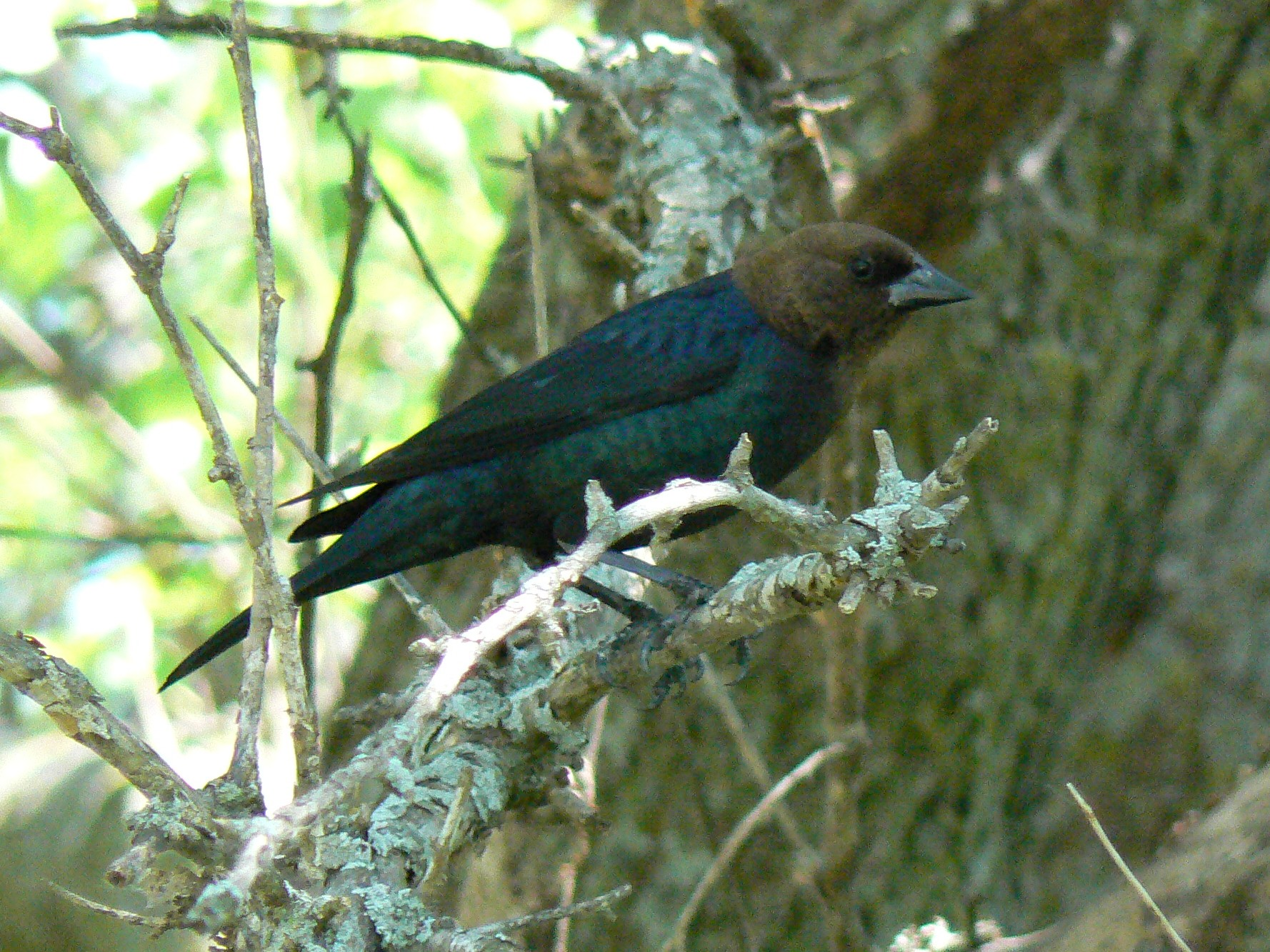 Brown-headed Cowbird Molothrus ater